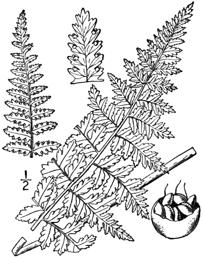 Fig. 29. Dennstaedtia punctilobula from the second edition of An Illustrated Flora of the Northern United States, Canada and the British Possessions (New York, 1913)